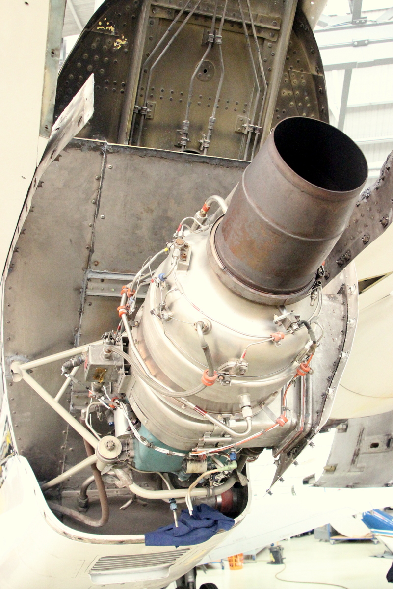 A Honeywell GTCP36-150 auxiliary power unit mounted in the tail of a Cessna Model 750 Citation X.